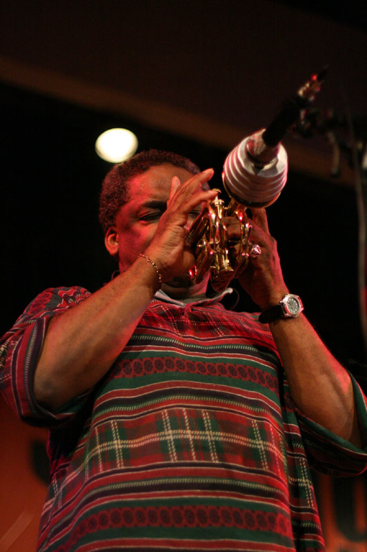 Roy Campbell at Jazzy Spring Festival 2008 (Bucharest Romania) on April 17, 2008.